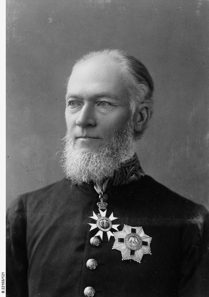 This image shows a photograph of Sir Thomas Fowell Buxton, 3rd Baronet (1837-1915) taken ca. 1880.